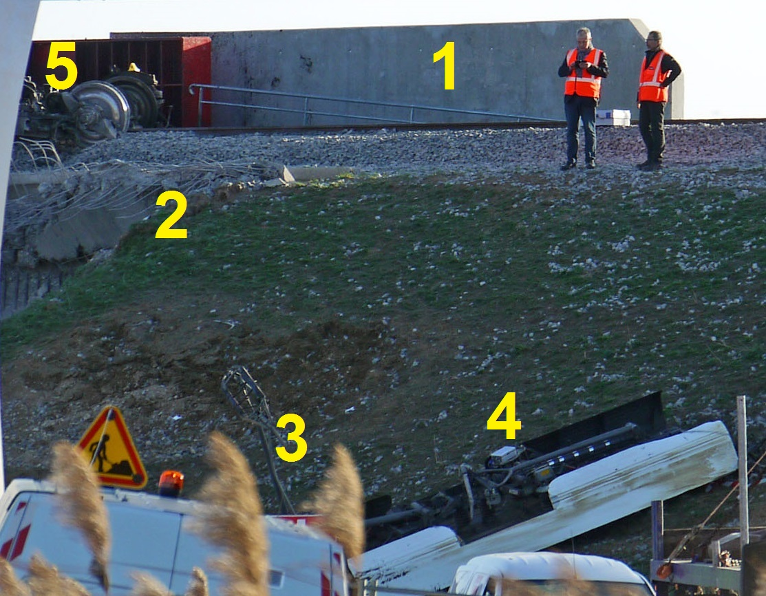 Scene of the aftermath of the Eckwersheim derailment, showing the northern side of the embankment of the southern track. In the upper left corner, the southern parapet (1) is seen intact while the northern parapet has been destroyed (2). The concrete parapets rest atop the concrete abutment and the red object is the abutment on the bridge structure. A bogie (5) is also visible on the tracks. In the lower part of the photo is the pantograph (3), still erect, and related subassembly (4) from power car 29787.